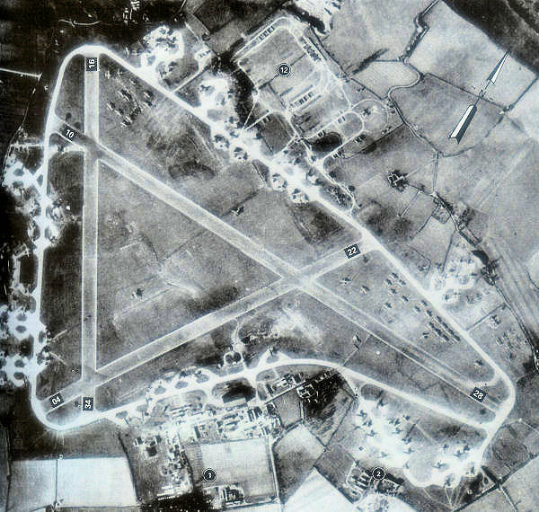 Aerial photograph of Rivenhall Airfield, England.